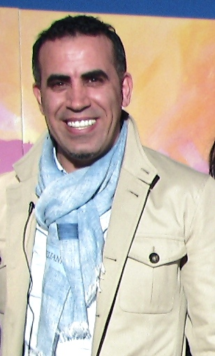 Turkish musician Haluk Levent.